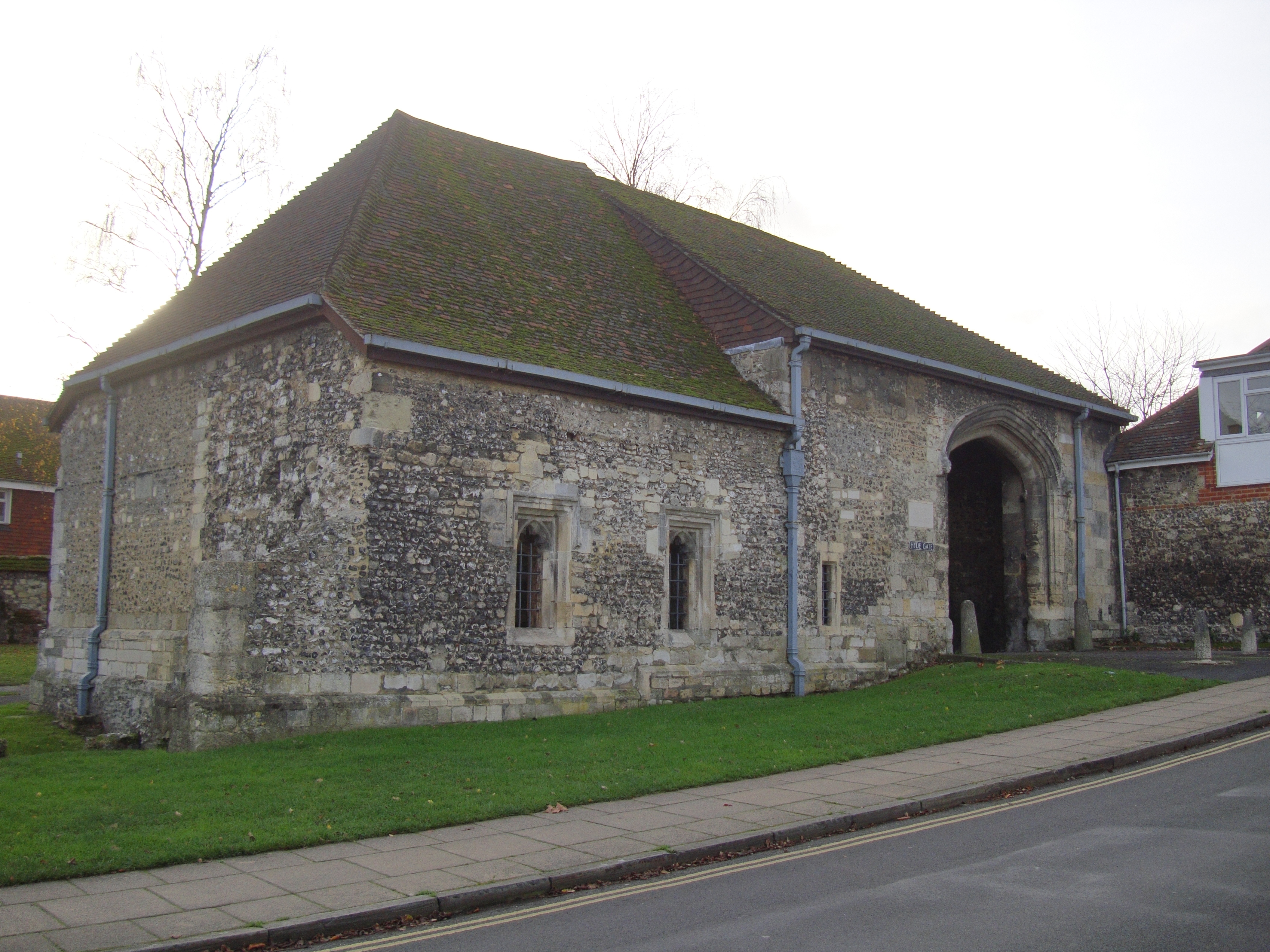 Photograph of the gatehouse of Hyde Abbey, Winchester, Hampshire, England